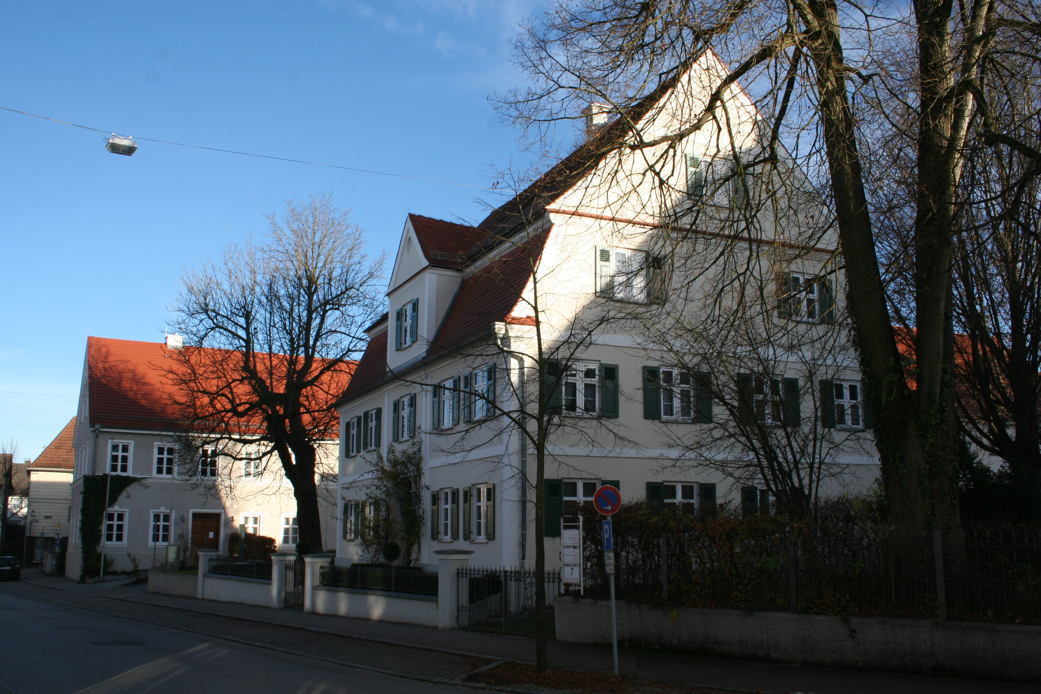 museum of local history in Krumbach